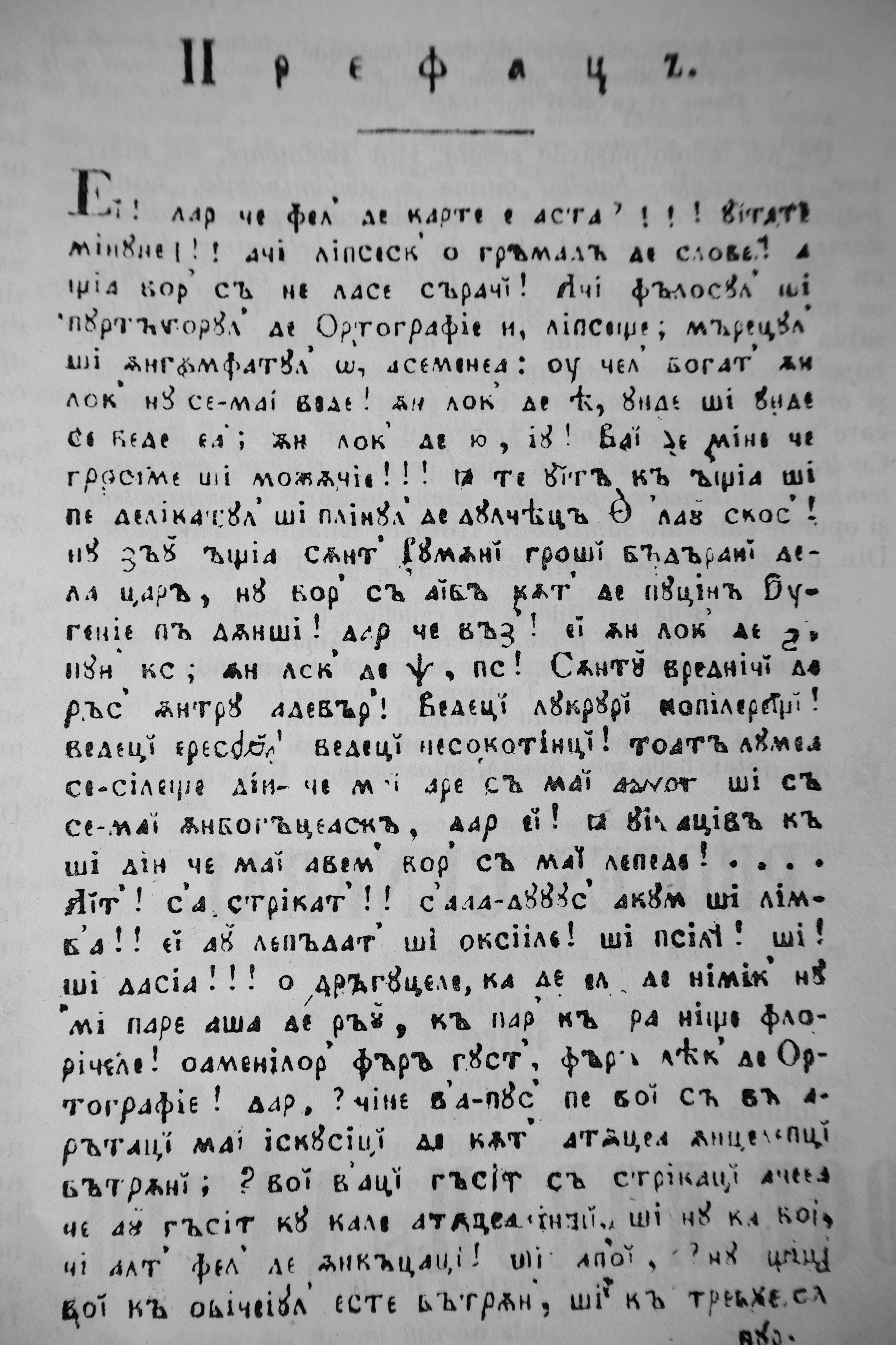 Preluată din Istoria literaturii române de la origini până în prezent